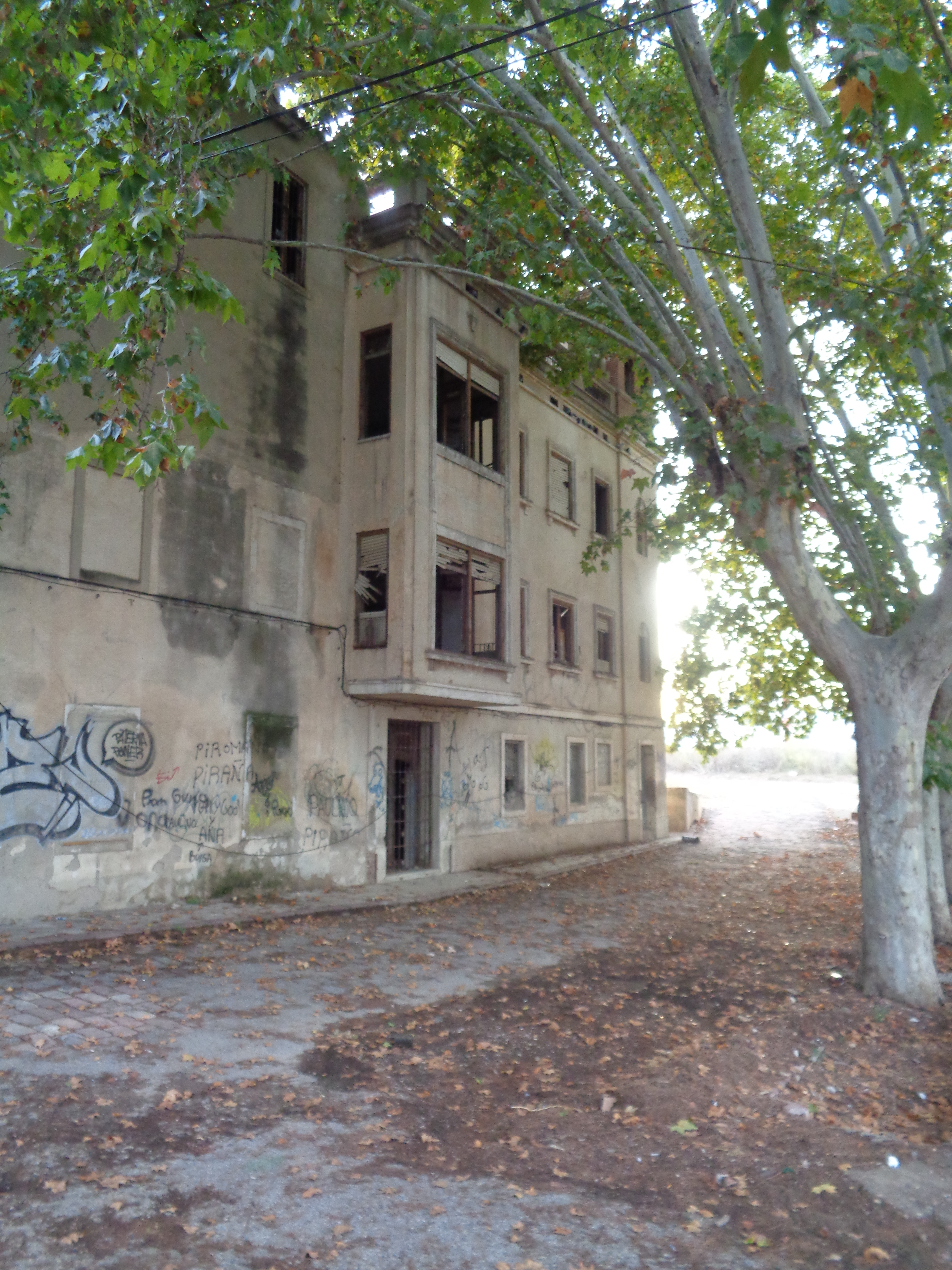 Main façade of the Vila Watermill, Paterna.